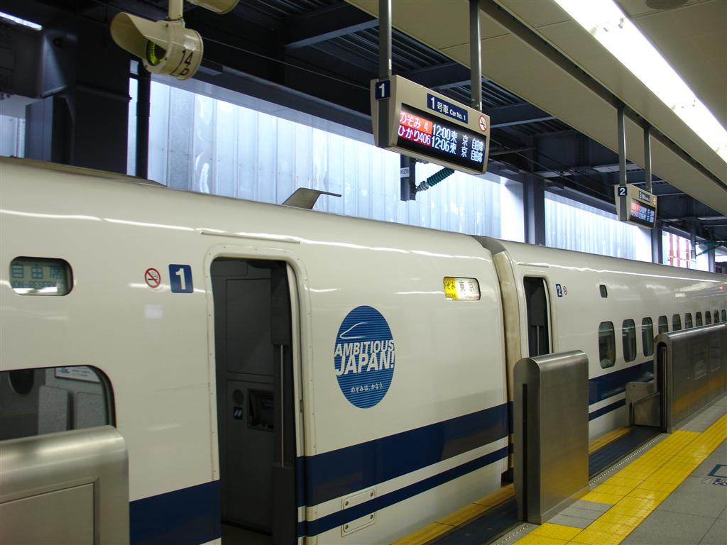 This is Shinkansen 700 Series Nozomi (Tokaido Shinkansen) at Shinagawa Station (品川駅), bound for Tokyo Station (東京駅). The logo "AMBITIOUS JAPAN" is used in a campaign in 2003. Wei-lun Lu and I took this picture on Sep. 11, 2005.